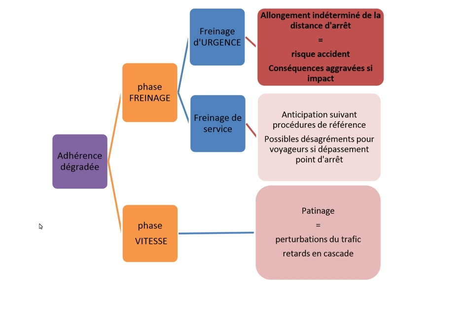 low wheel-rail adhesion